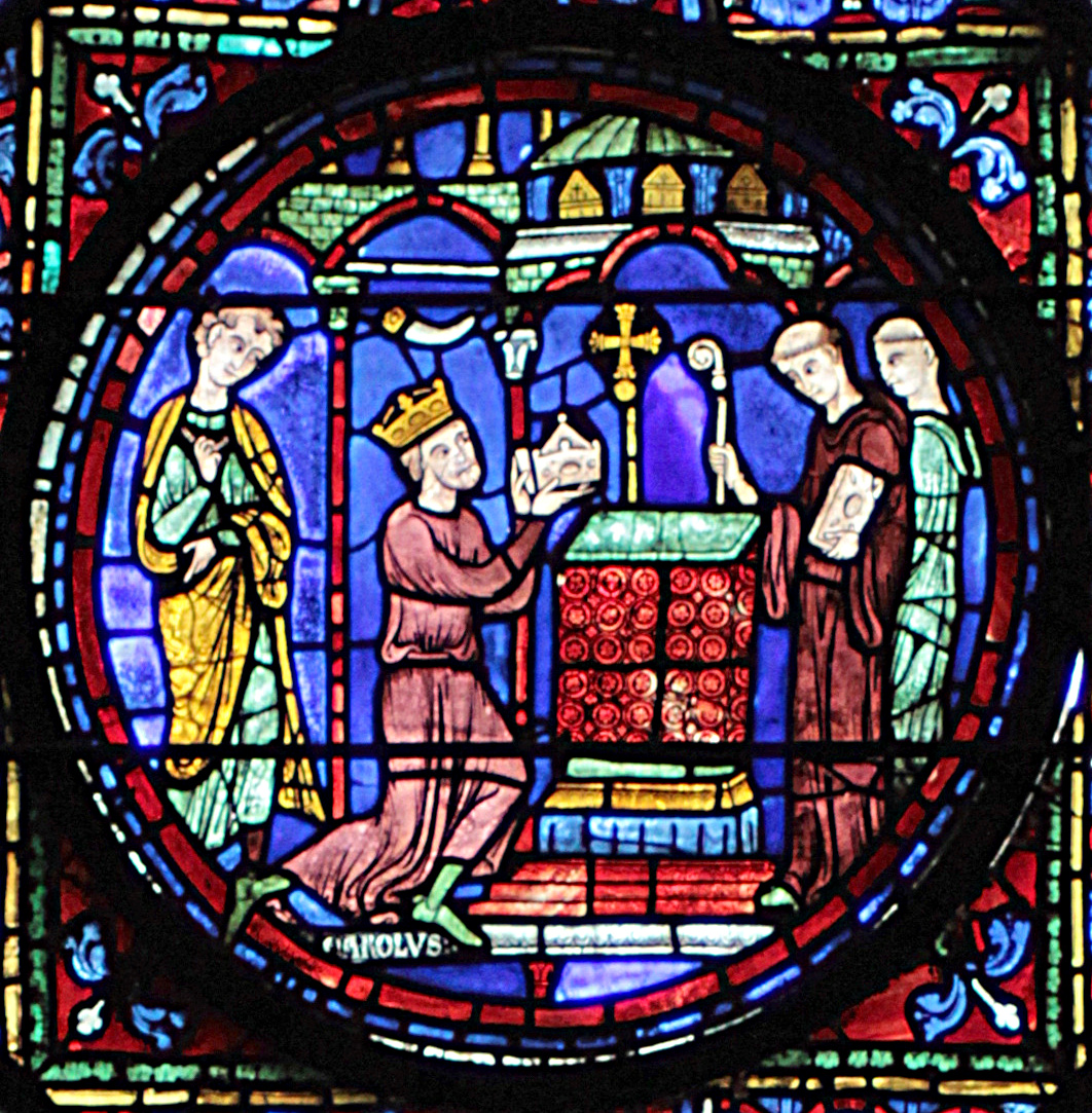 The Legends of Charlemagne (ambulatory, bay 7).